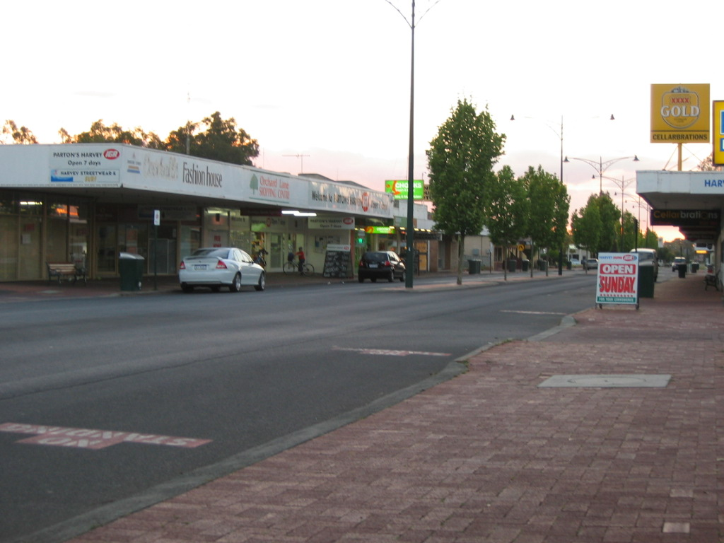 Harvey town centre at dusk (westwards along Uduc Road)